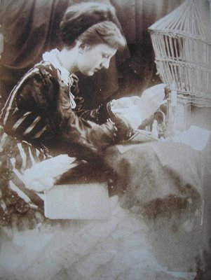 Photo of Alice Liddell by Julia Margaret Cameron